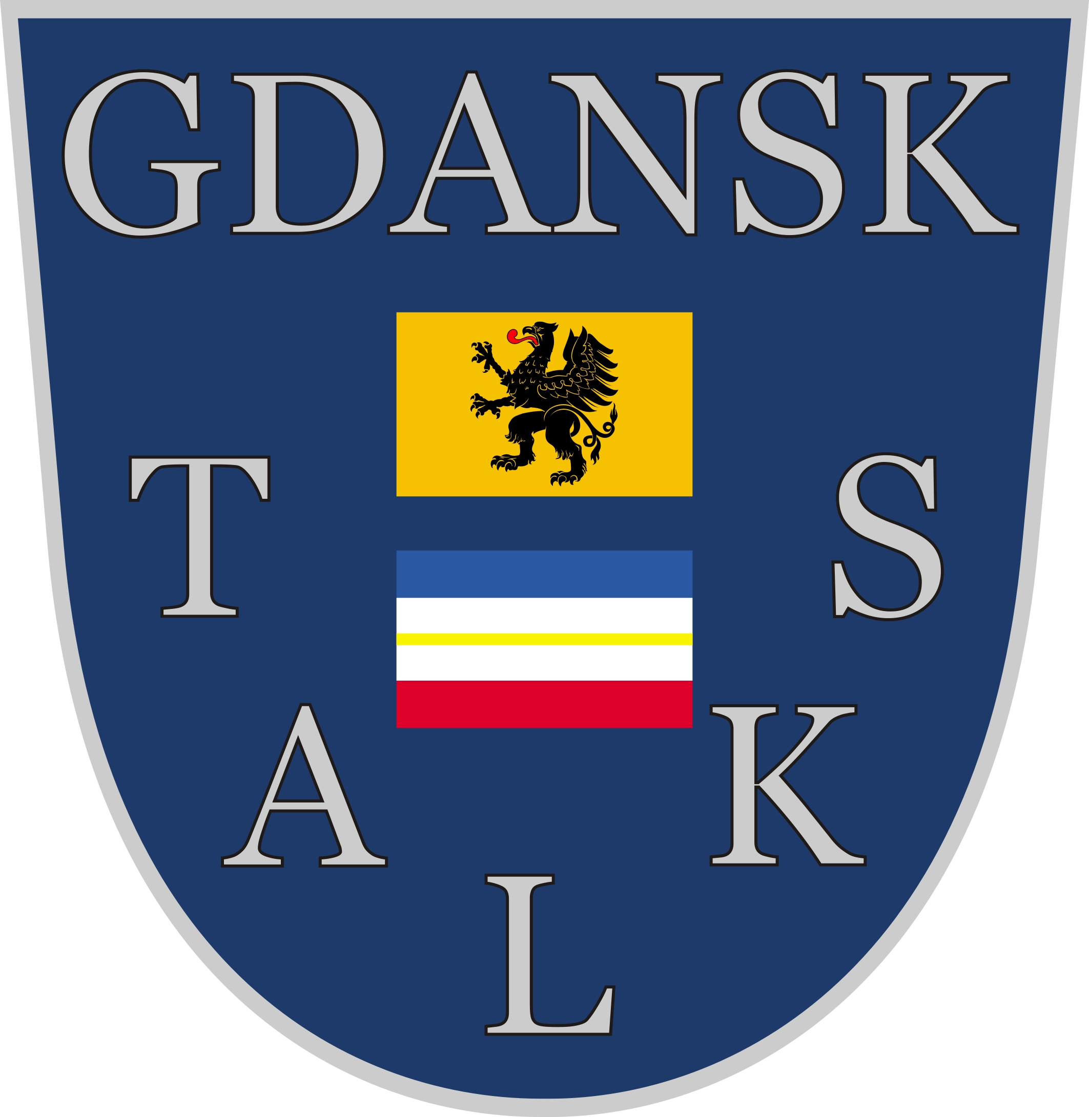 The official logo for the international security conference Gdansk Talks